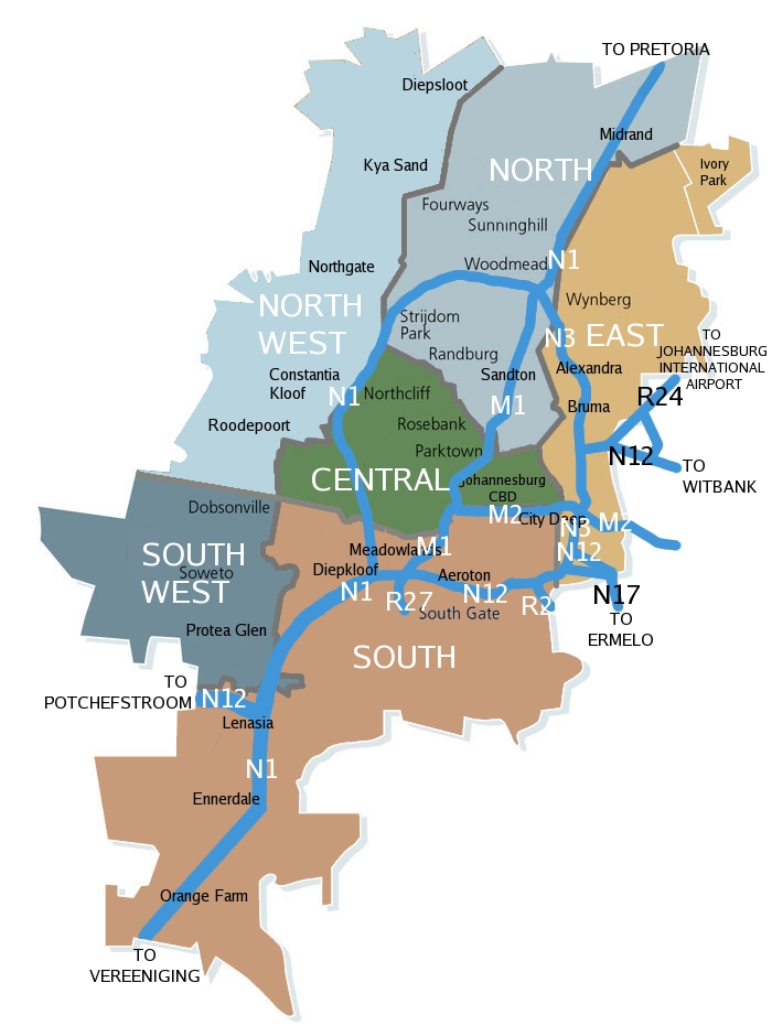 Map of Johannesburg with road markings, regions and annotations.